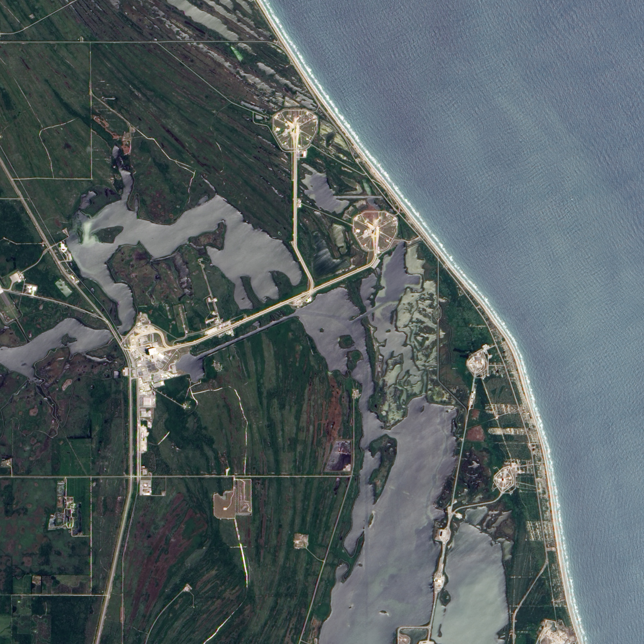 This true-color image shows launch pad 39A and neighboring pad 39B at Cape Canaveral Air Force Station. Both launch pads sport networks of buff-colored roadways dissecting marshy fields. At the center of each launch pad, roads converge and support buildings cluster. Outside the launch pads, vegetation is deep green, thanks to the warm, humid local climate. Sunlight bounces off the rippling waves of the Atlantic Ocean, and illuminates the relatively smooth surfaces of the inland water bodies on the cape. A white wave breaks along the cape’s shore.